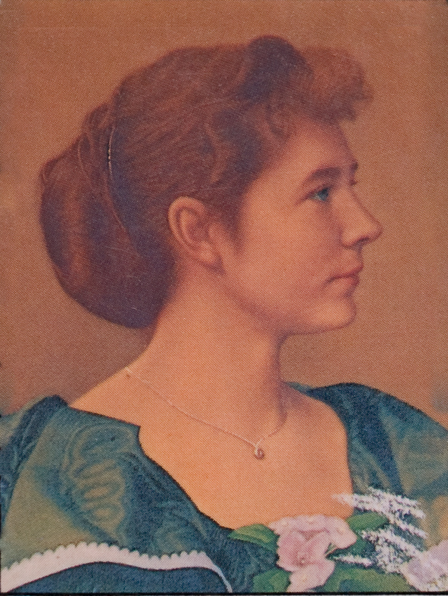 A portrait of Countess Iso Mutsu